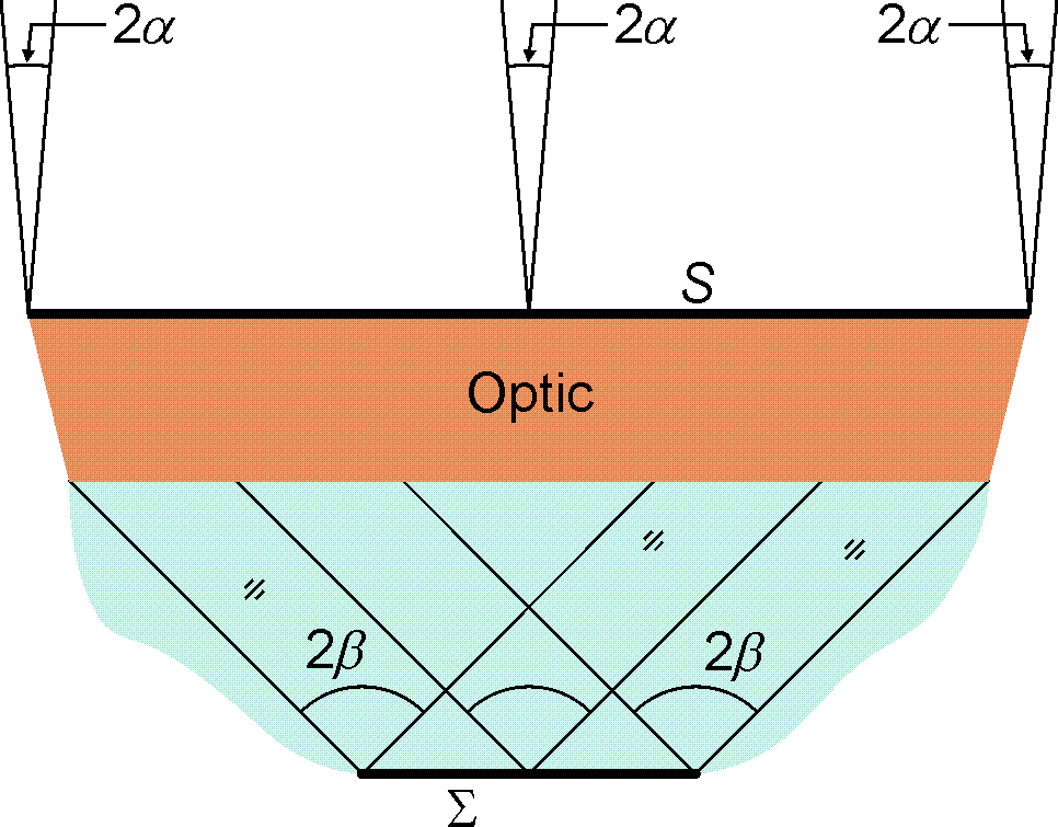 A diagram illustrating the conservation of etendue at a maximum possible concentration.